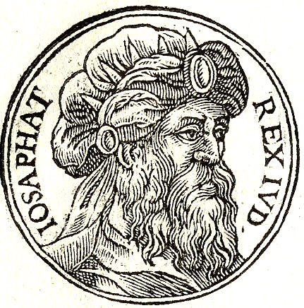 Josaphat was the fourth king of the Kingdom of Judah, and successor of his father Asa.